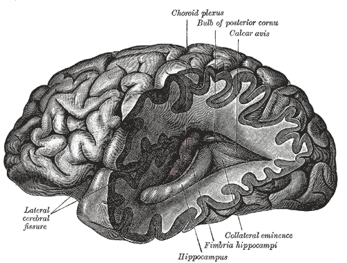 Posterior and inferior cornua of left lateral ventricle exposed from the side.